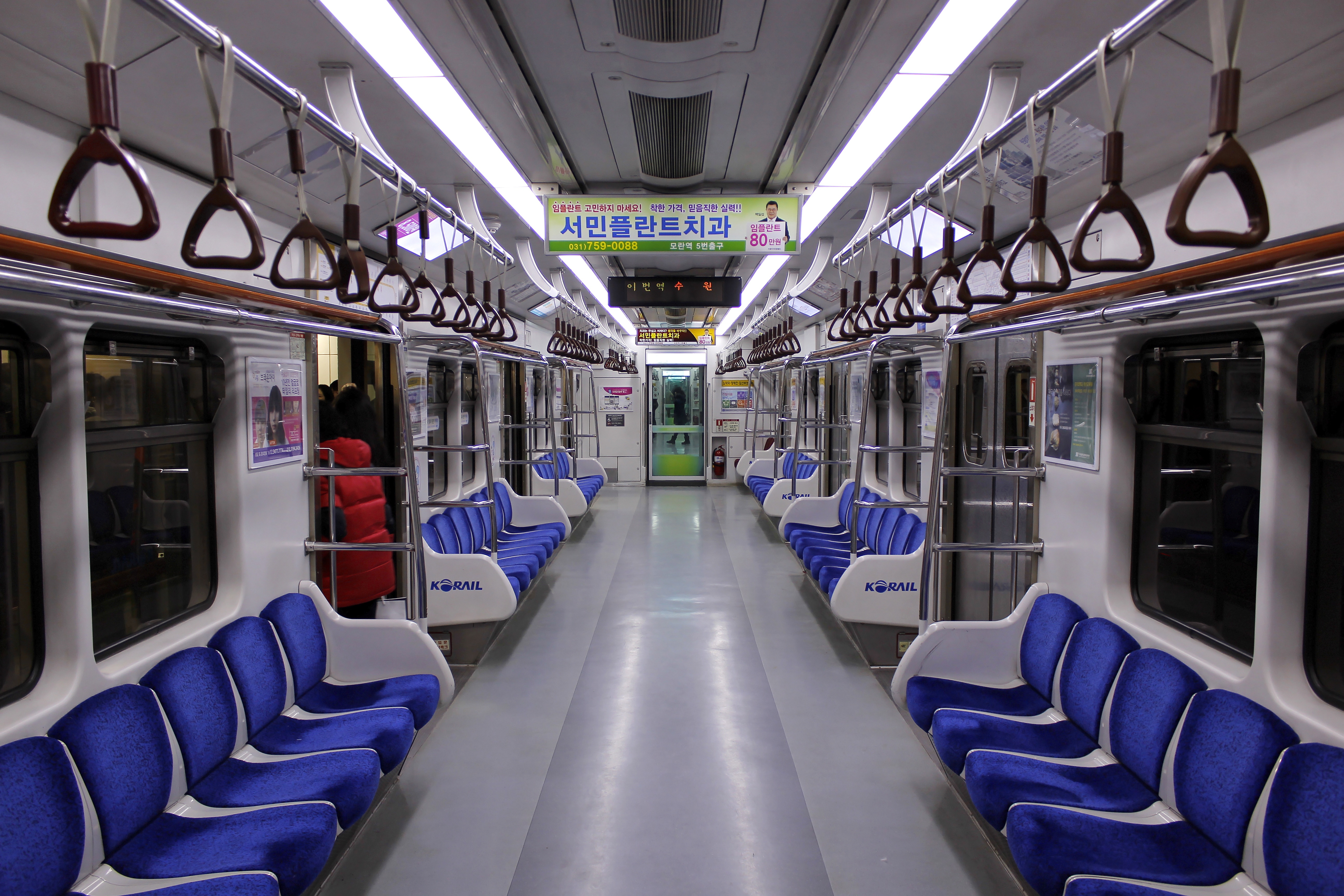 Korail Class 351000 EMU 1st Batch Interior